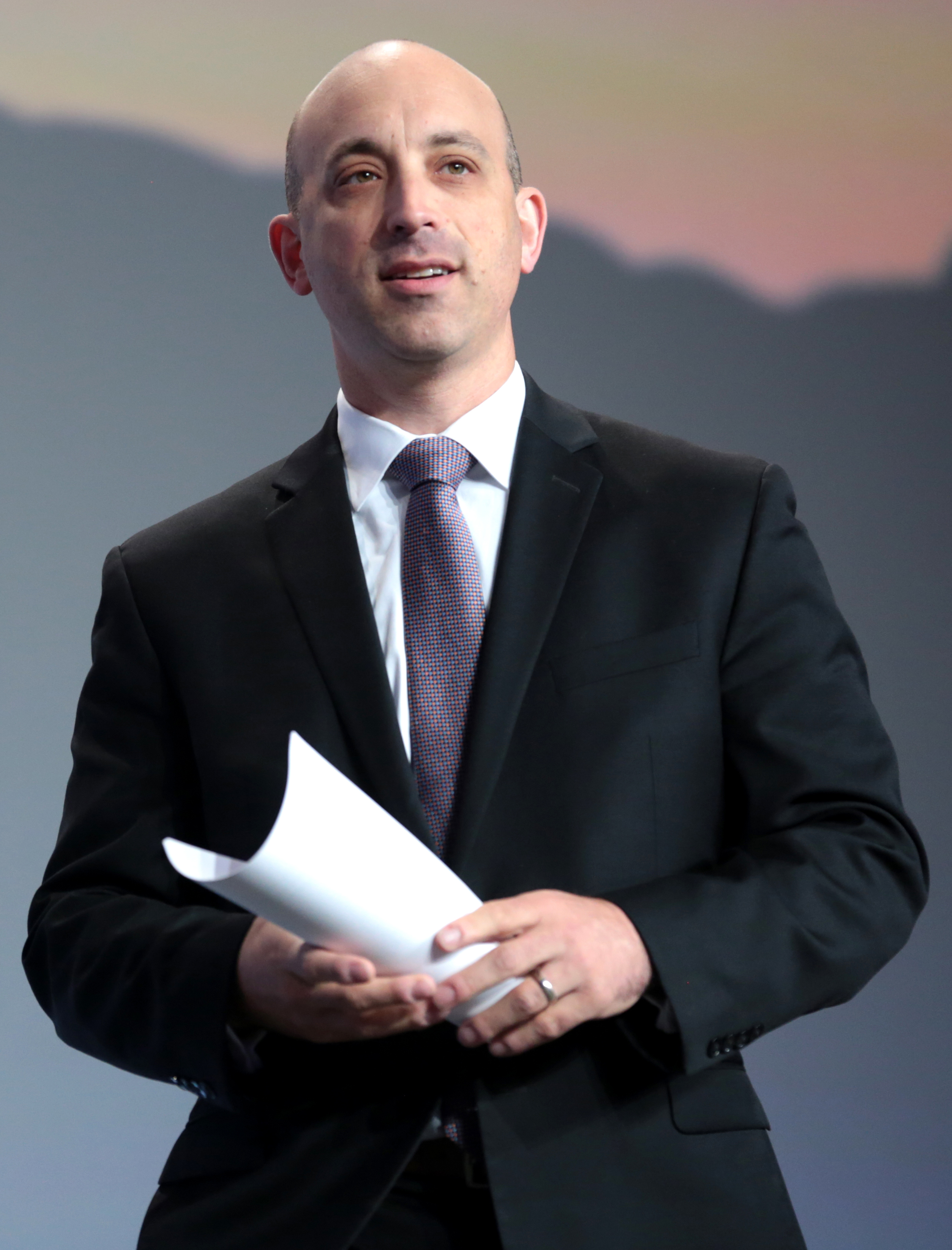 Jonathan Greenblatt speaking at an event in Phoenix, Arizona.